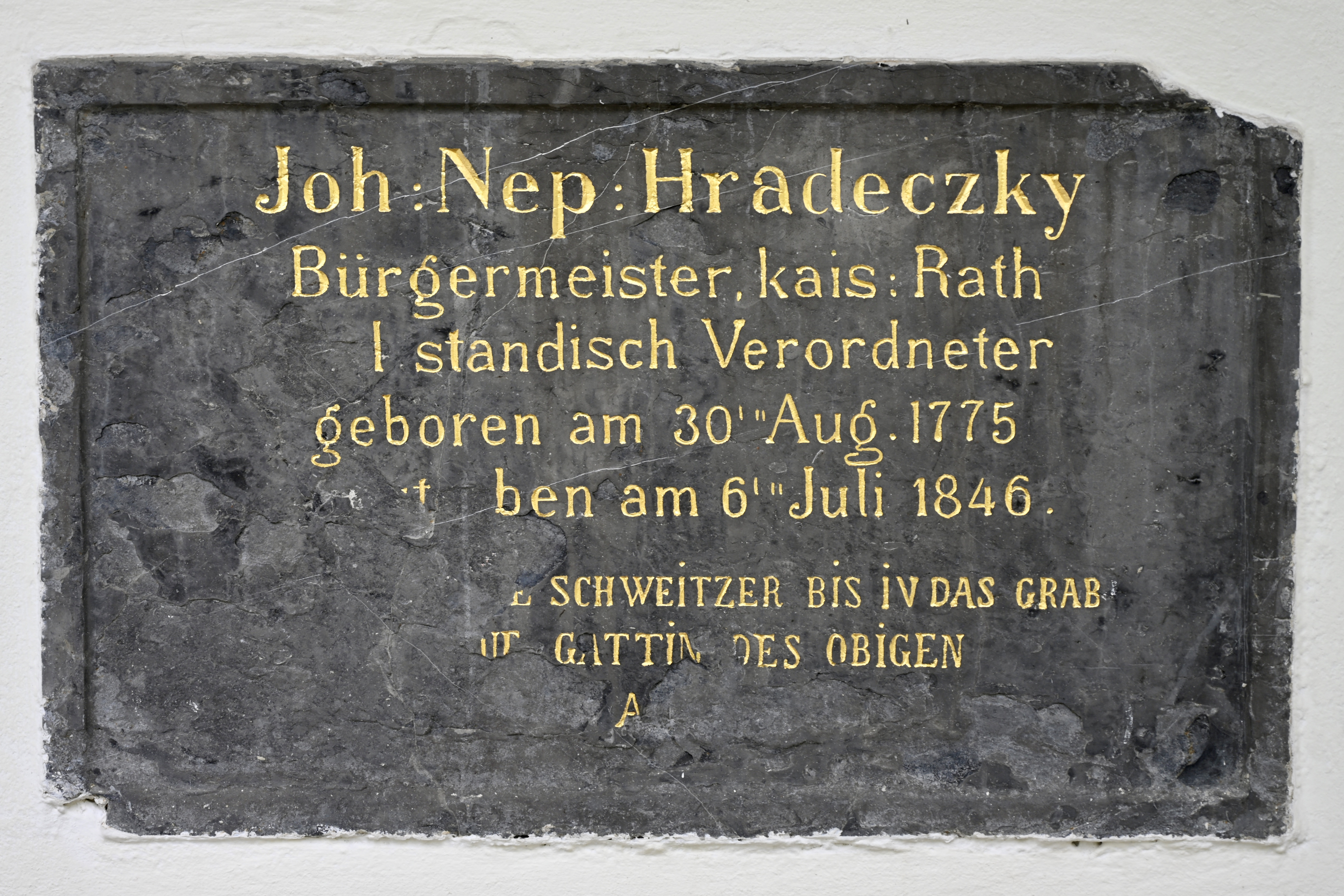 Tombstone plate of Janez Nepomuk Hradecky, mair of Ljubljana (1820 - 1846) at Navje